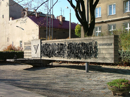 Monument in Tarnów